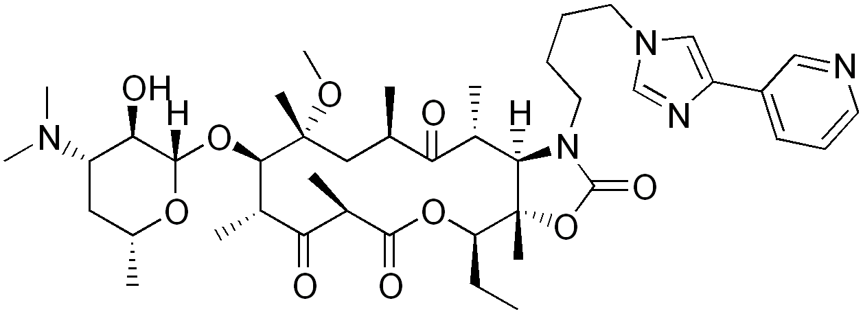 chemical structure of telithromycin